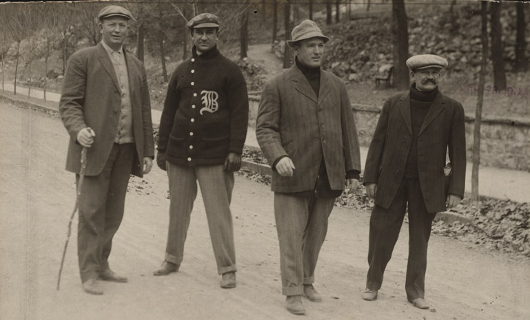 Accession No.: 06_06_000043 Title: Cy Young, Jake Stahl, Bill Carrigan and Michael T. McGreevey, Boston Red Sox Spring Training Caption: Cy Young, Stahl, Carrigan, "Nuf Ced." Creator: Arlington Studio, Happy Hollow Date: 1912 Format: photograph Description: Taken during Spring Training hike in Hot Springs Arkansas in March of 1912. Cy Young had retired after the 1911 season. BPL Collection: McGreevey Collection BPL Department: Print Subject: Baseball--History Spring training (Baseball) Boston Red Sox (Baseball team)